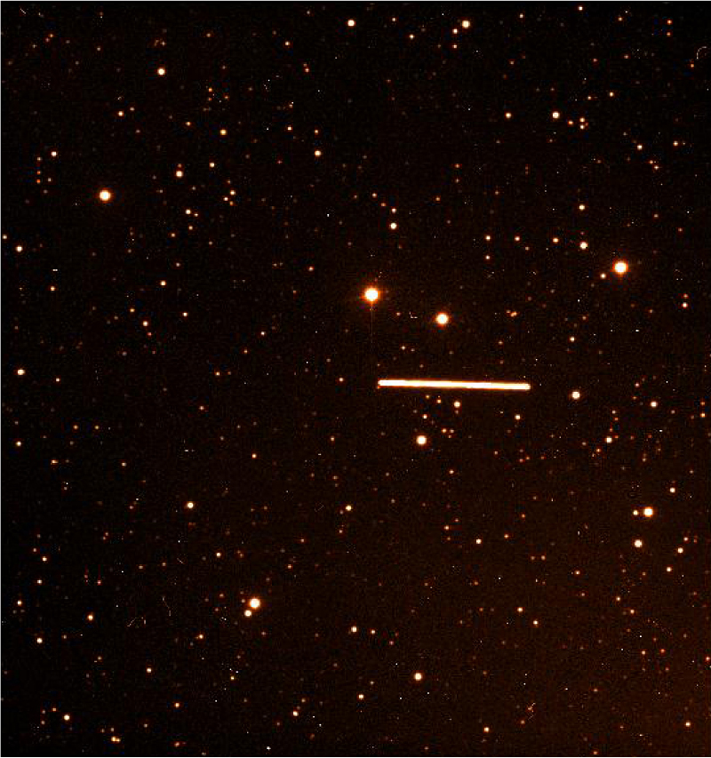 Asteroid 4179 Toutatis, as photographed with the FORS1 multimode instrument at the 8.2-m VLT Kueyen telescope at the ESO Paranal Observatory. At the time of these exposures, the asteroid was about 1,640,000 km from the Earth and moving rapidly across the sky in the southern constellation Ara (The Altar). The exposure time of this image was 1 min while the telescope was following the normal diurnal motion; the stars appear as points of light, while the asteroid's long trail crosses the entire field-of-view.